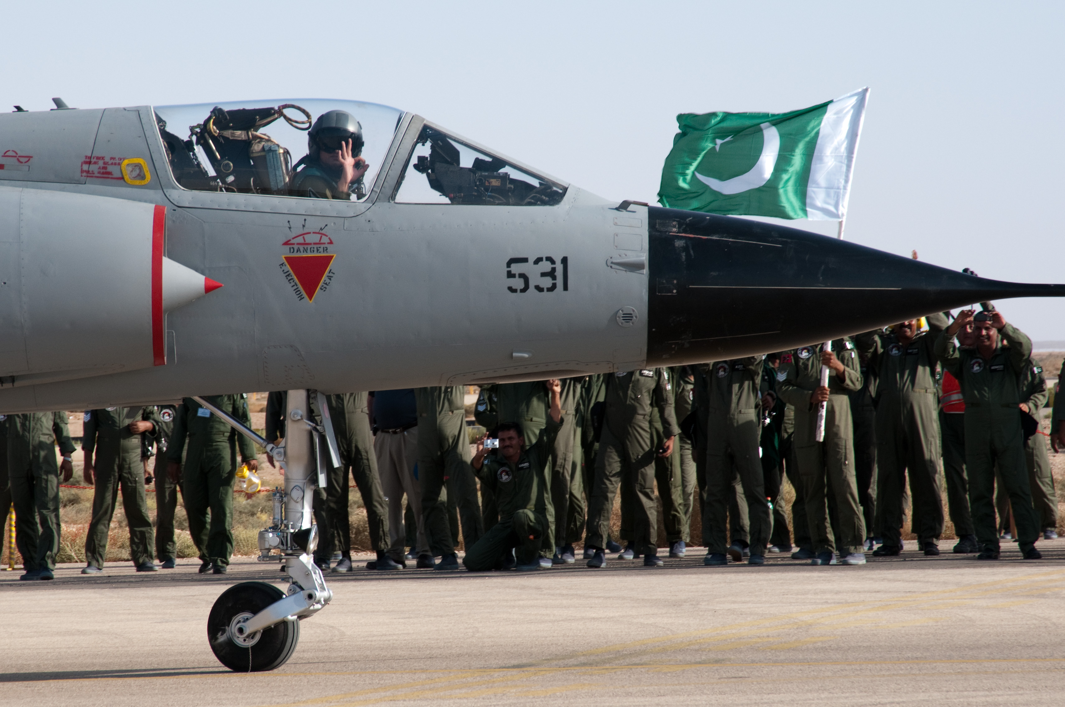 A Pakistan air force pilot in a Mirage aircraft gives a hand signal during the Falcon Air Meet 2010 alert scramble competition at Azraq Royal Jordanian Air Base, Jordan, Oct. 20, 2010. The United States, Jordan and Pakistan participated in the Falcon Air Meet to improve international military relations and joint air operations. (U.S. Air Force photo by Tech. Sgt. Wolfram M. Stumpf/Released)